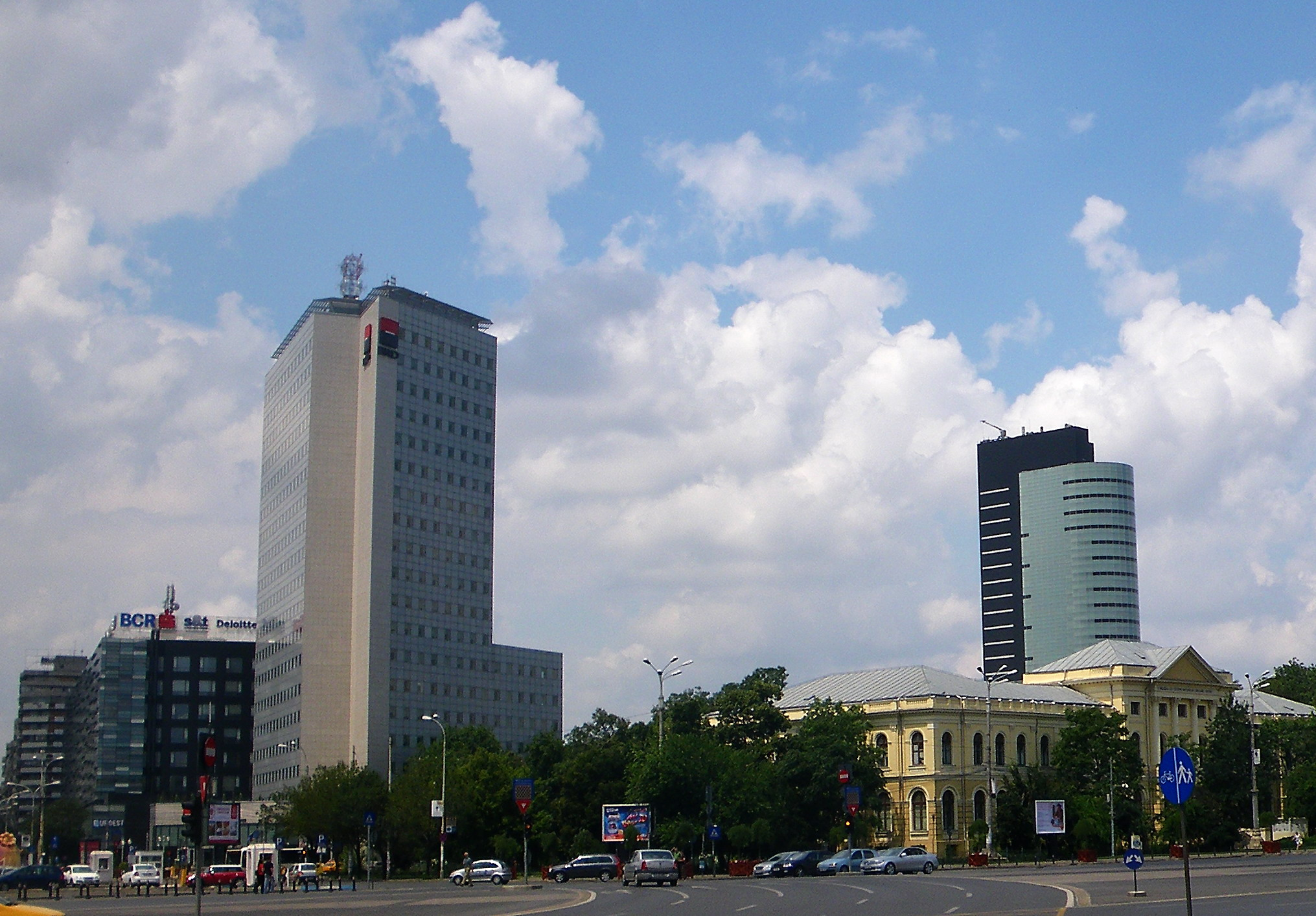 Bucharest BRD Tower and Bucharest Tower Center